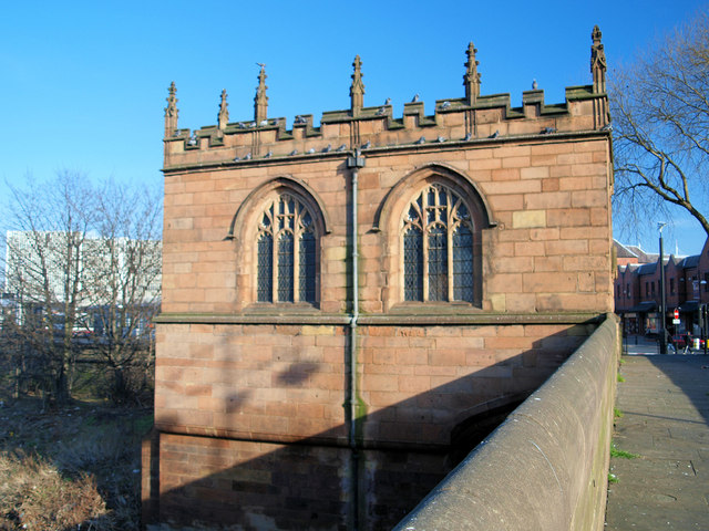 Chantry Bridge, near to Rotherham, Great Britain. This was built in 1483, Thomas Rotherham probably paid some money towards this. The bridge was already there, and the chapel was added to it. The idea of the chapel was to provide a place where masses could be sung for the people who paid for them to be built. This was done to speed their way to Heaven. Rotherham's chantry is a good example. There are only two other chantry bridges in the country the other being in nearby Wakefield.